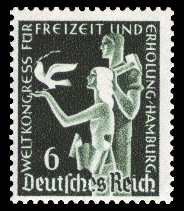 Commemorative stamp for the world congress of recreation in Hamburg Graphics by Sepp Semar Ausgabepreis: 6 Pfennig First Day of Issue / Erstausgabetag: 30. Juni 1936 Michel-Katalog-Nr: 622 (Deutsches Reich)